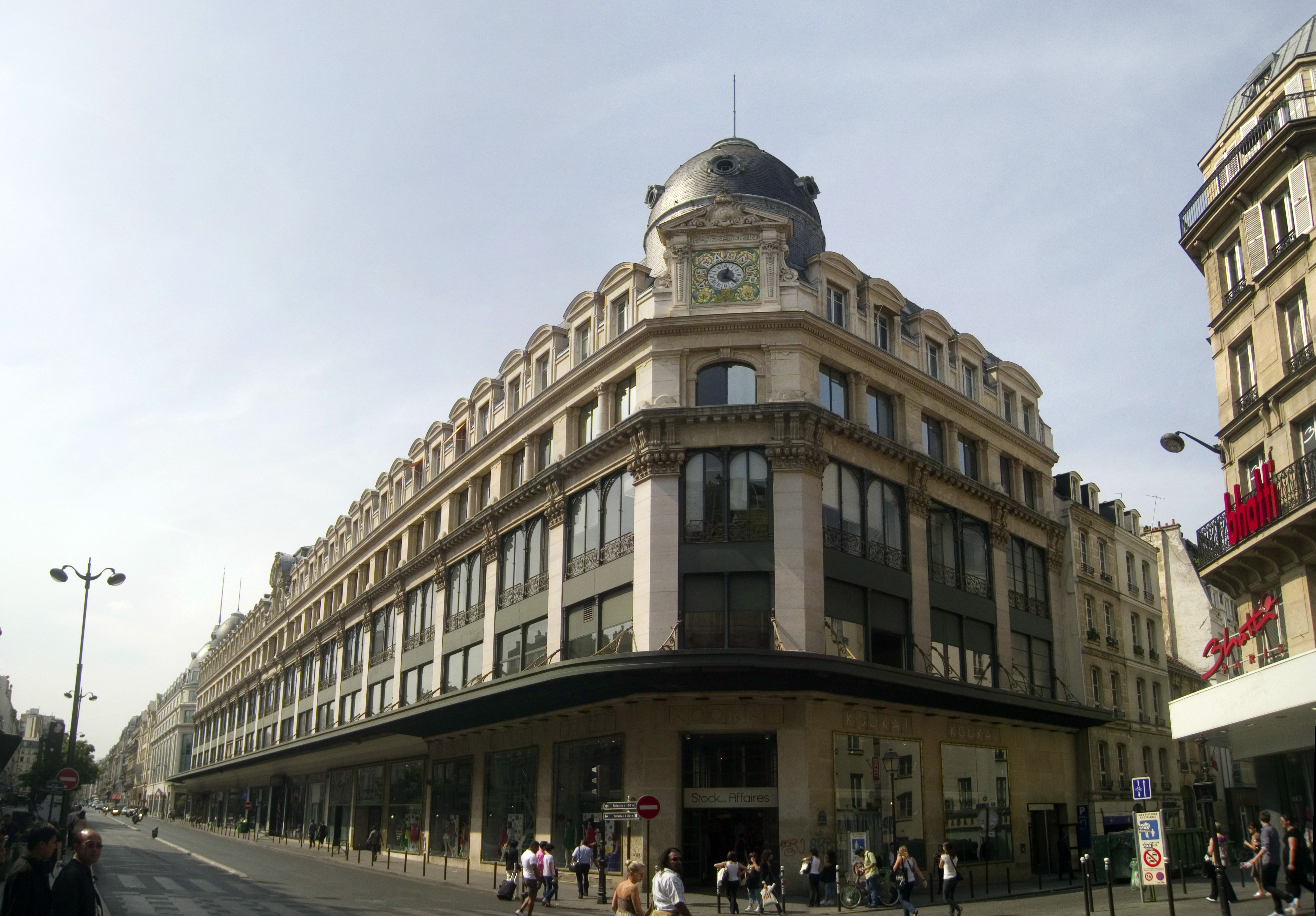 82-92 rue Réaumur, Paris 2nd arrondissement; façade of the building.